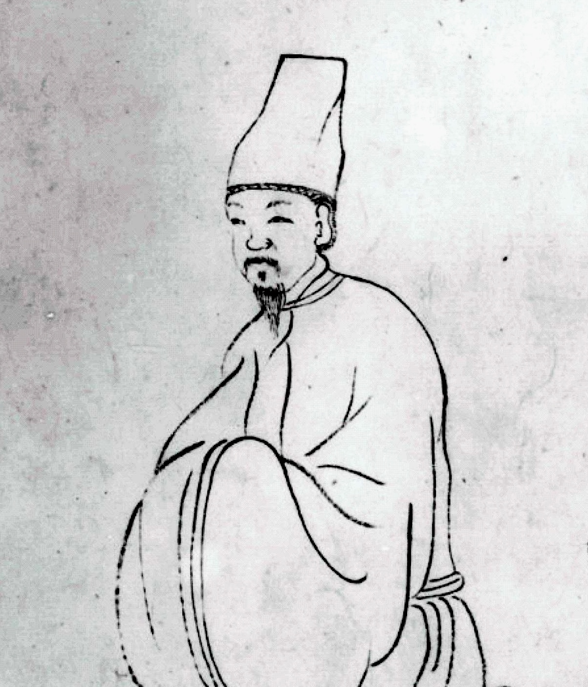 portrait of Hong Dae-yong